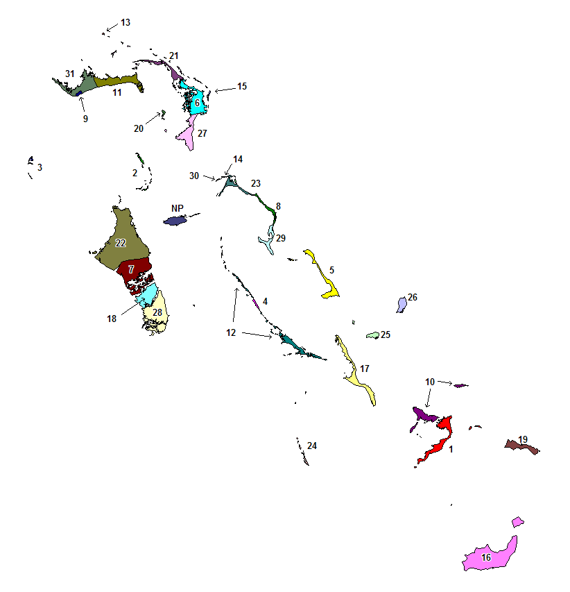 Created by Rarelibra for public domain use. Created using MapInfo Professional v7.5 and referencing various Bahamian map sources. Category:Maps of the Bahamas